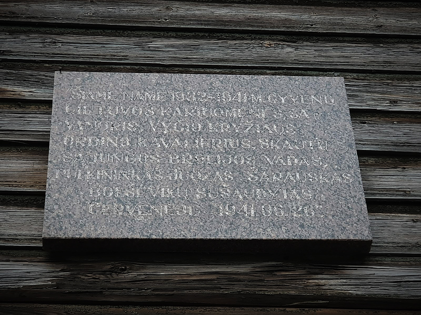 1994 m. Žaliakalnyje prie namo (Dainavos g. 2) atidengta memorialinė lenta: „Šiame name 1932–1941 m. gyveno Lietuvos kariuomenės savanoris, Vyčio Kryžiaus ordino kavalierius, Skautų sąjungos brolijos vadas, pulkininkas Juozas Šarauskas. Bolševikų sušaudytas Červenėje 1941 06 26“ (Kauno m. mero 1994 01 24 potv. Nr. 57).